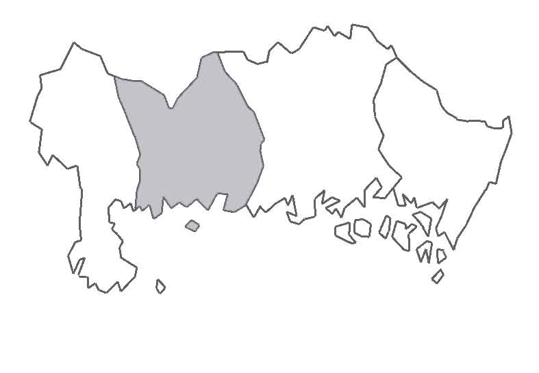 Map describing the location of Bräkne Hundred in Blekinge county, Sweden.